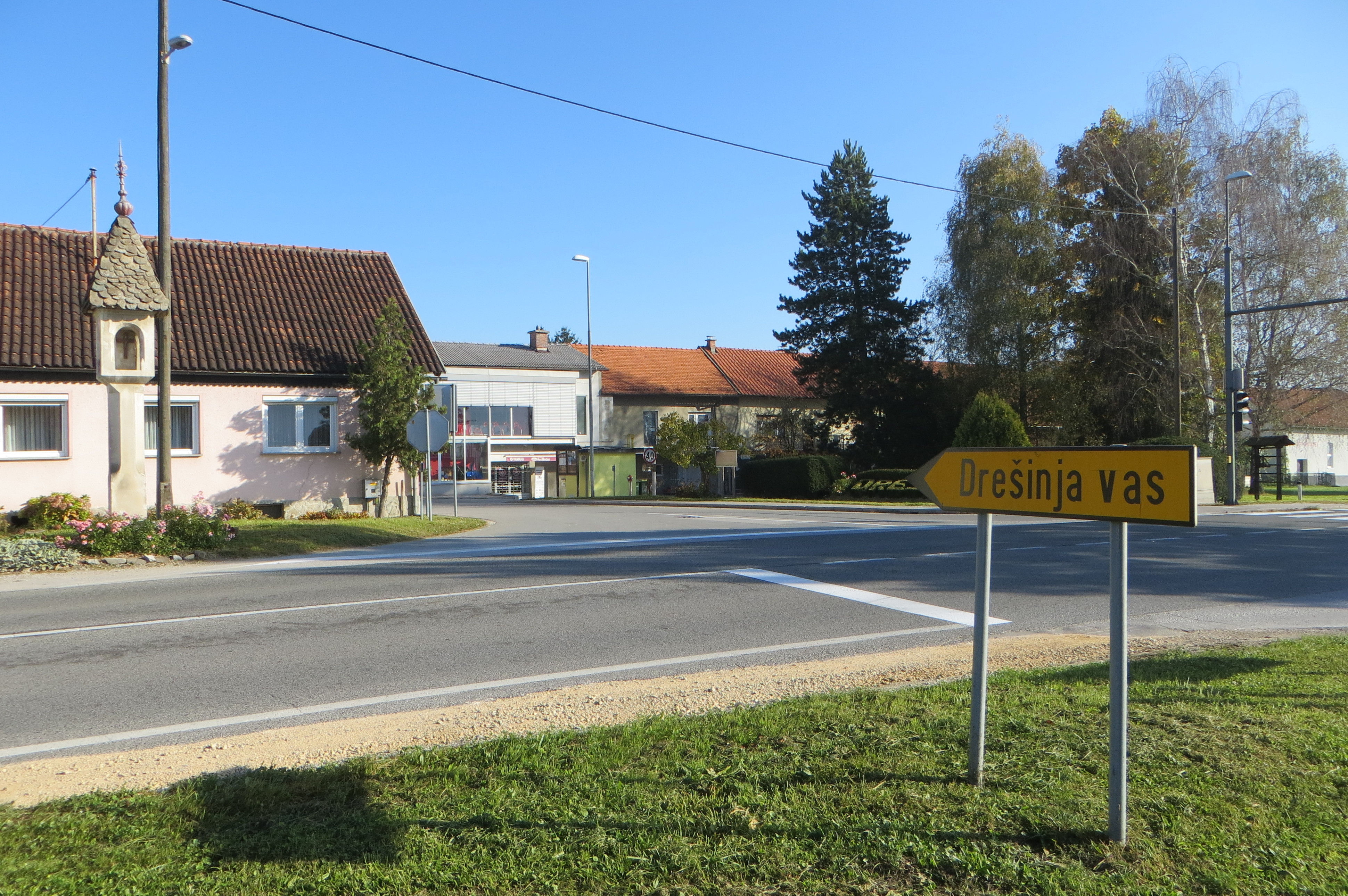 Drešinja Vas, Municipality of Žalec, Slovenia